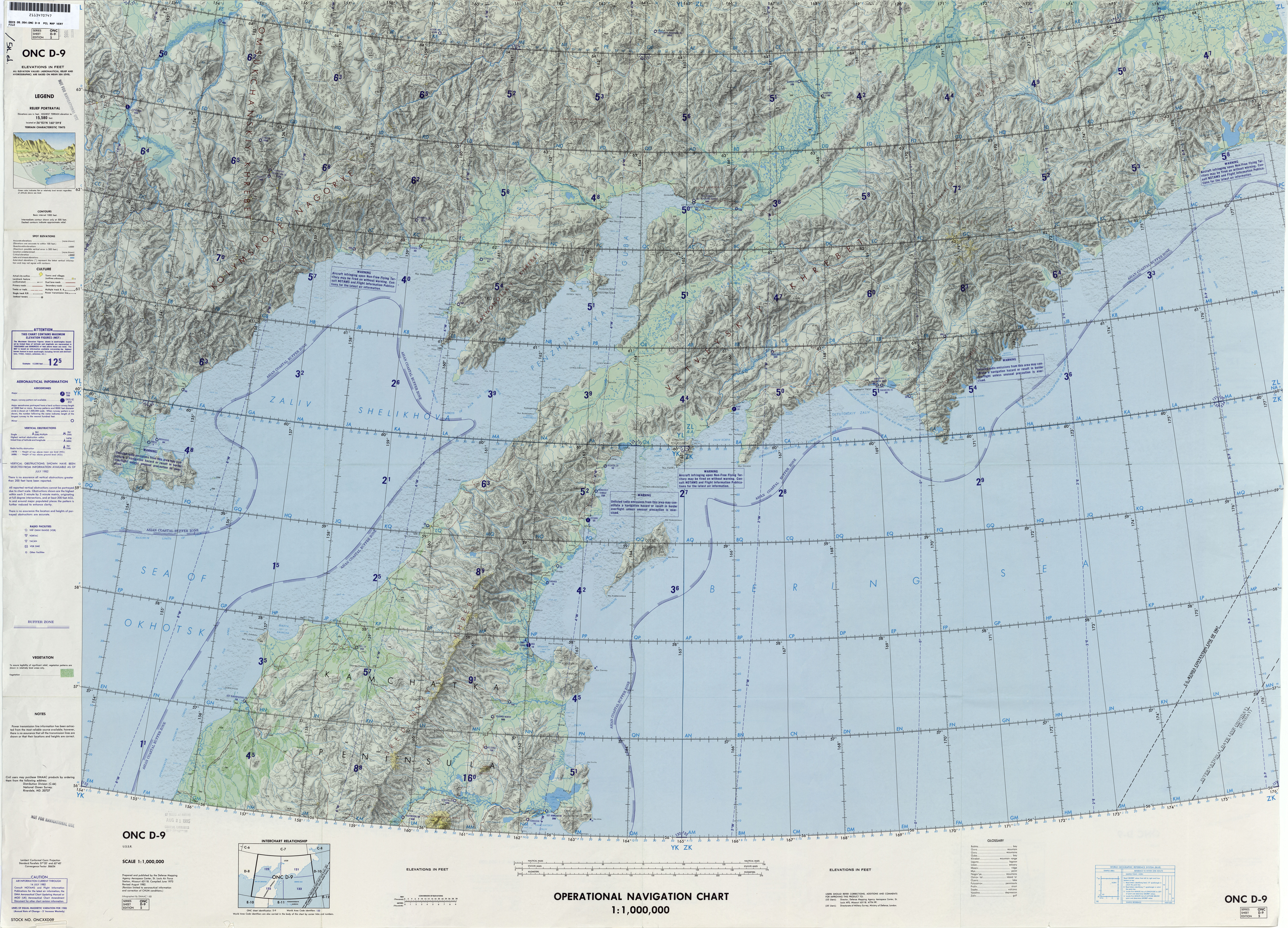 1:1,000,000 scale Operational Navigation Chart, Sheet D-9, 5th edition. Covers the U.S.S.R. Lambert Conformal Conic Projection.